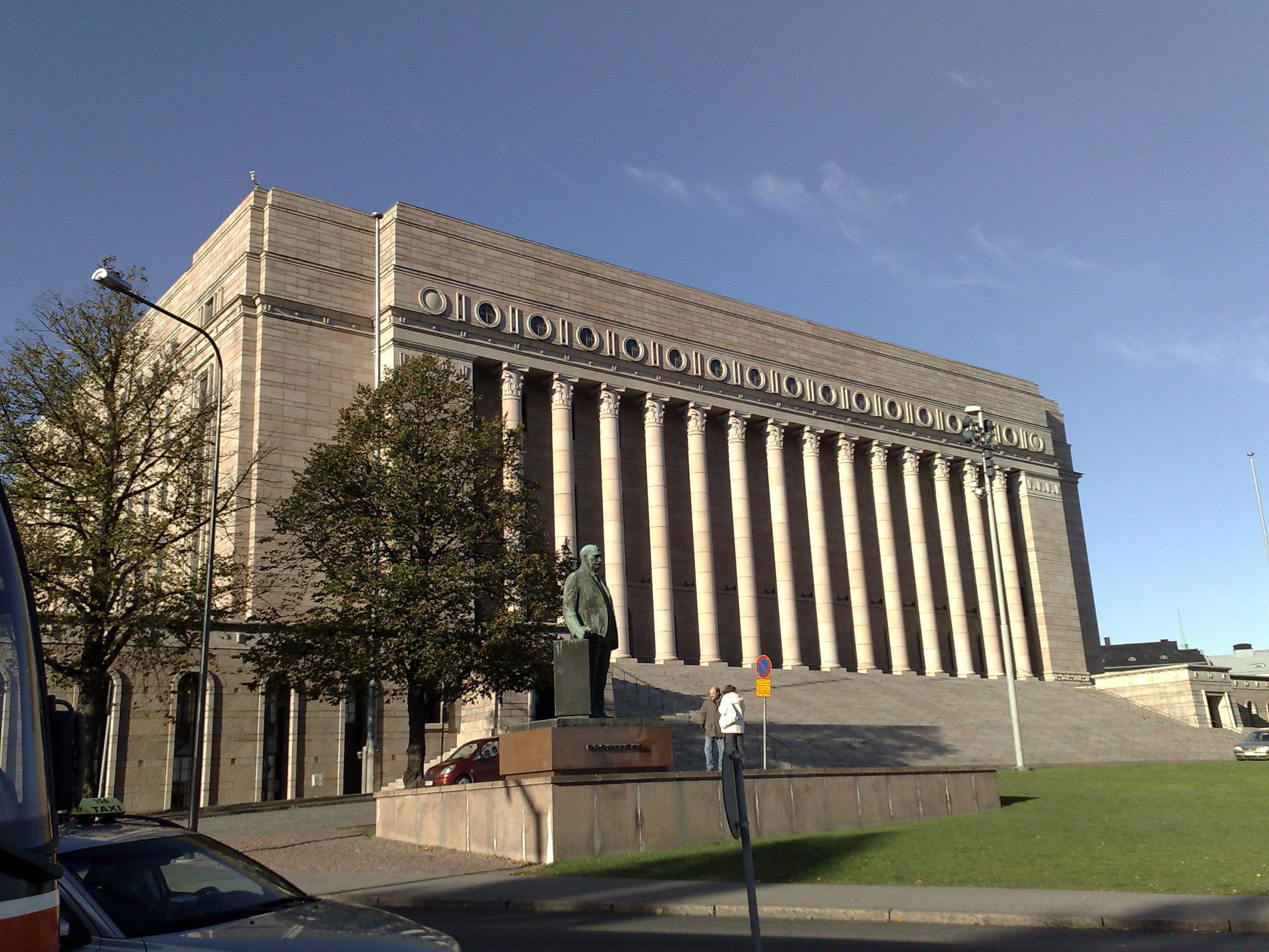 Parliament of Finland